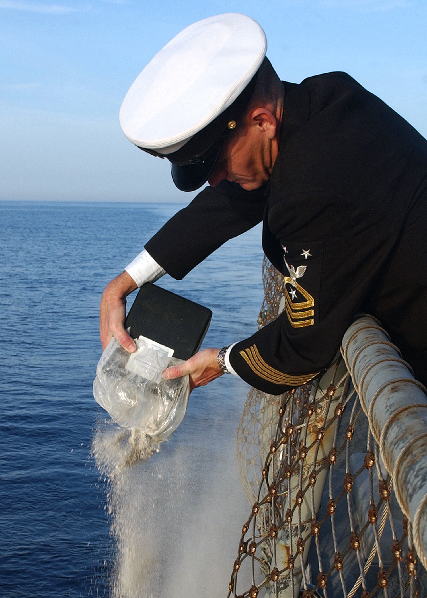 Central Command Area of Responsibility (May 01, 2003) -- Officers & sailors aboard the Arleigh Burke class guided missile destroyer USS Donald Cook (DDG 75) honor six former U.S. military members during a burial at sea ceremony. Donald Cook is one of the many warships supporting Operation Iraqi Freedom. U.S. Navy photo by Chief Journalist Alan J. Baribeau. (RELEASED)